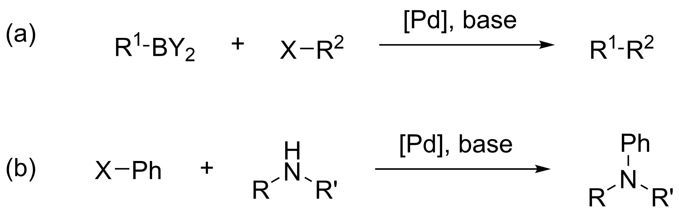 Examples of reactions catalyzed by PEPPSI complexes.